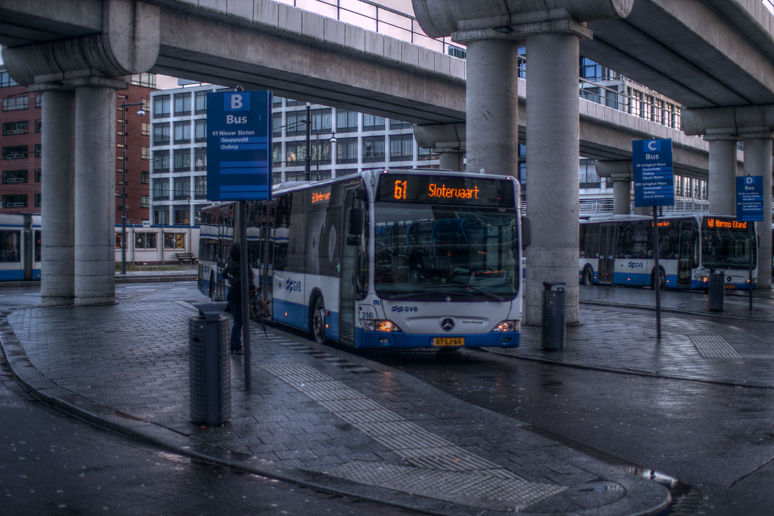 Bus 61 at its terminus Sloterdijk